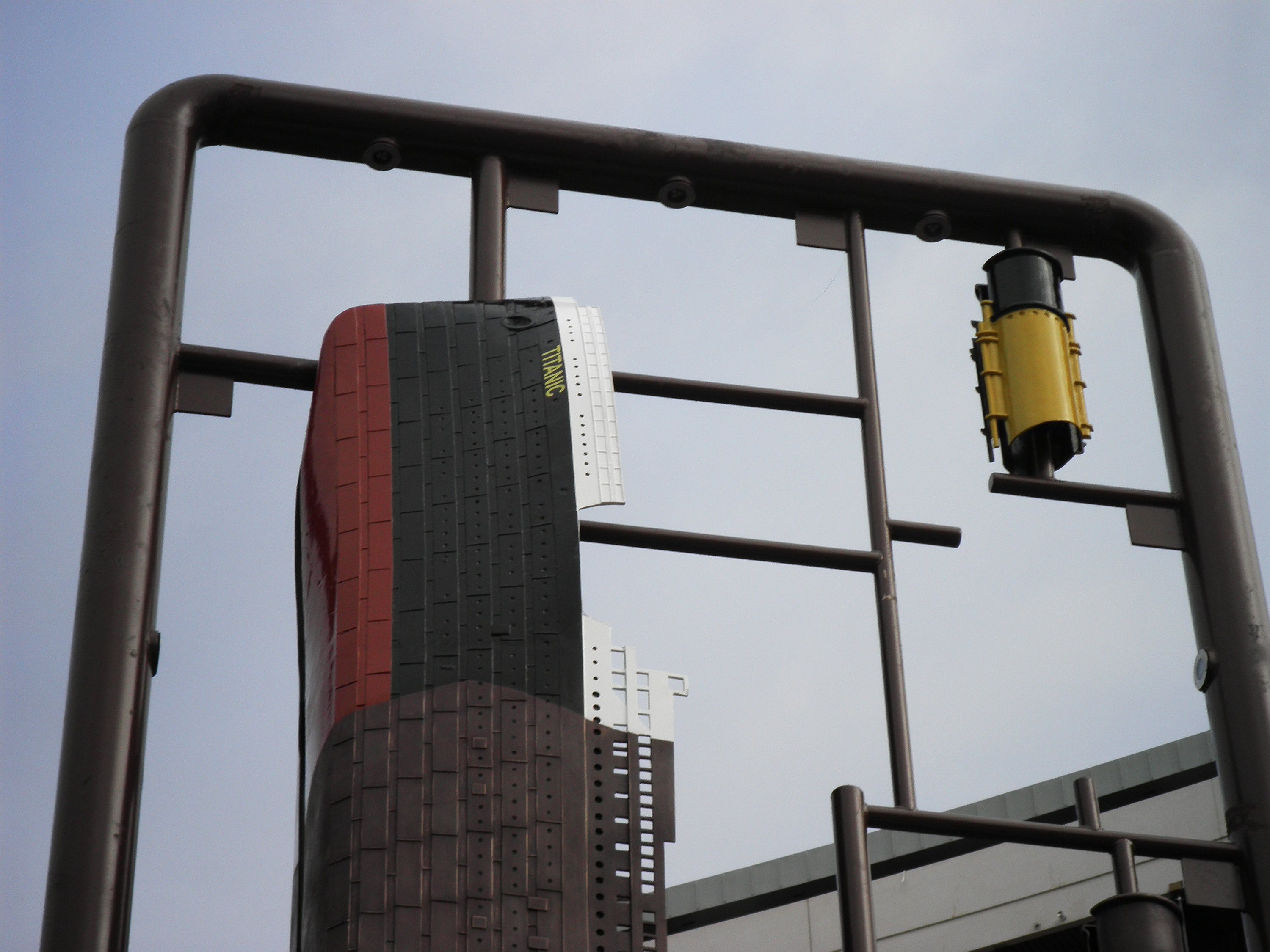 A photo I took in Belfast.